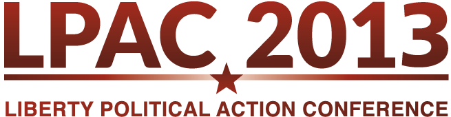 Logo for the 2013 edition of the Liberty Political Action Conference